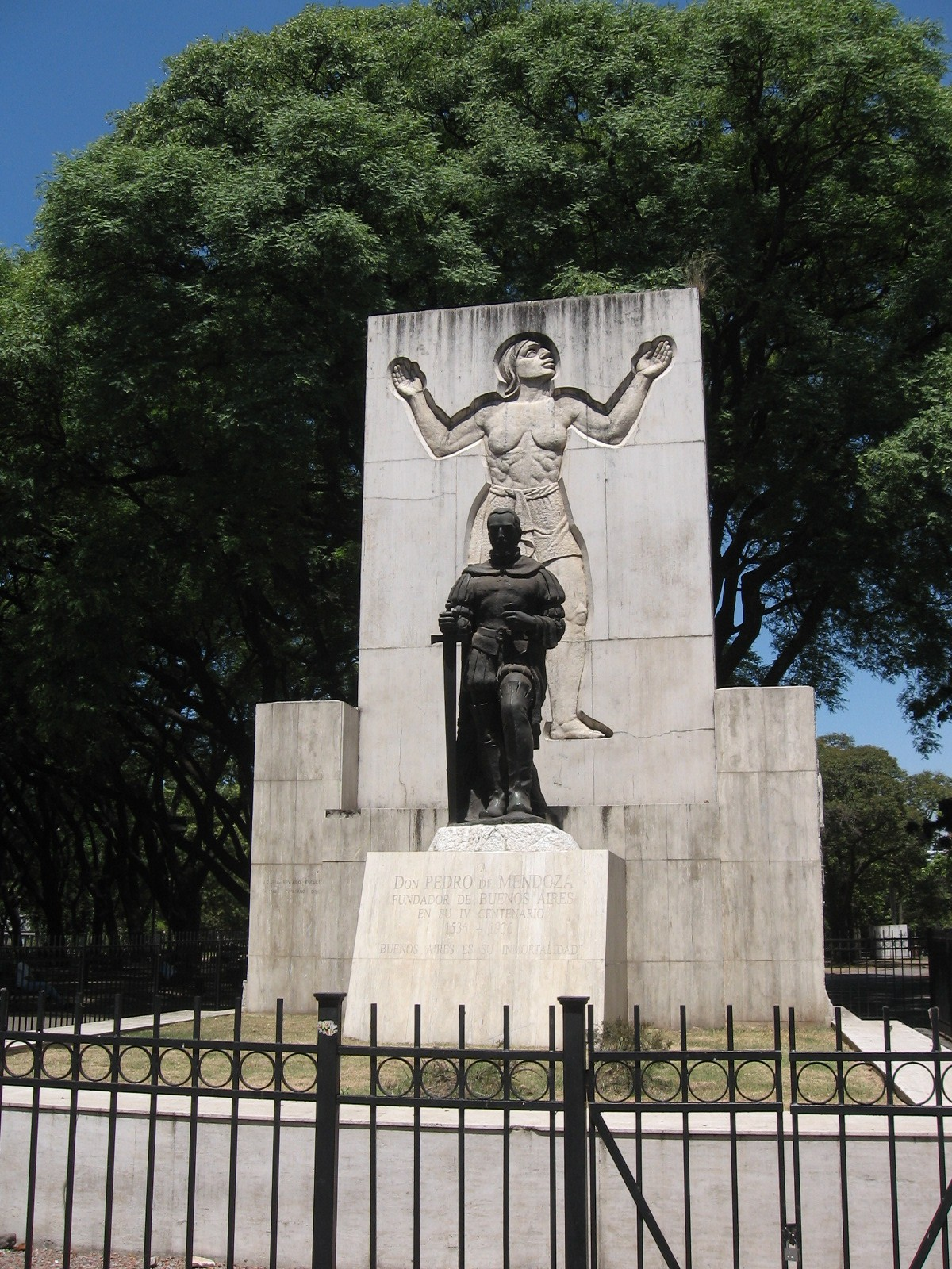 Monument to Pedro de Mendoza y Luján (c. 1487 – 1537) — in Parque Lezama of Buenos Aires. A Spanish conquistador, soldier and explorer, and the first adelantado of the Viceroyalty of the Río de la Plata (Virreinato del Río de la Plata).